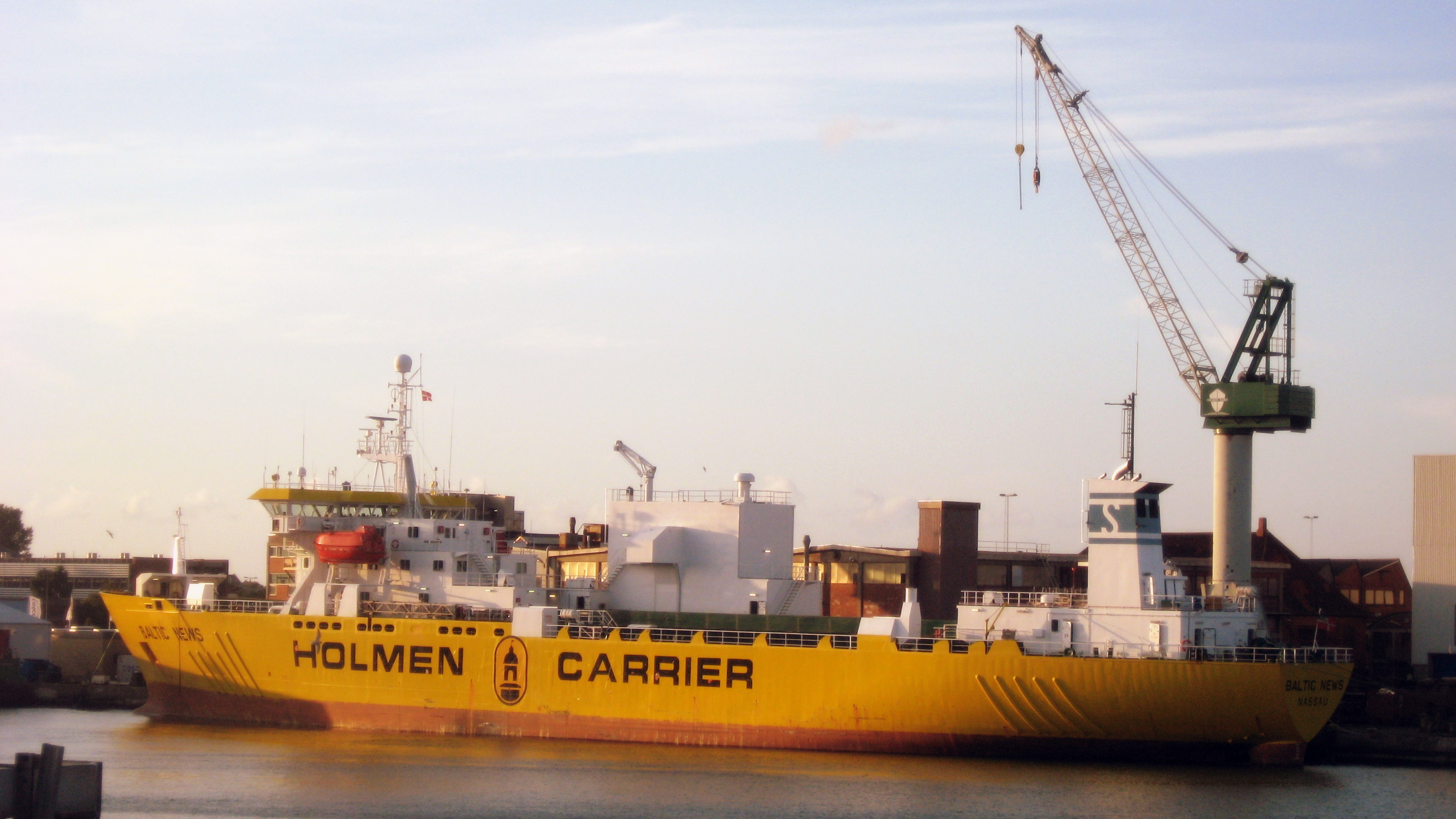 Baltic News / Holmen Carrier; IMO Number: 8808616 MMSI Number: 311139000 Callsign: C6RQ2 Length: 116 m Beam: 18 m Photo taken in Frederikshavn, Denmark